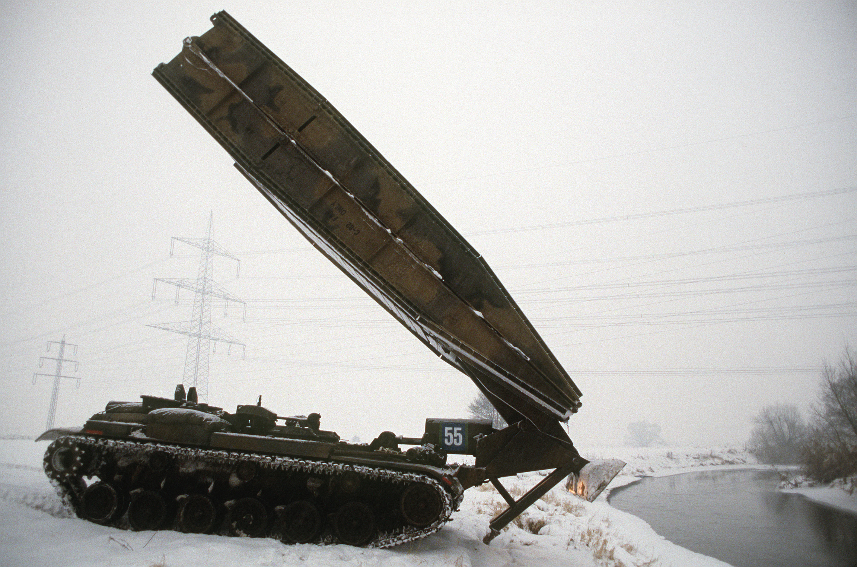 M60 Armored vehicle launced bridge is deployed across the Lahn River during Central Guardian, a phase of Exercise REFORGER '85.